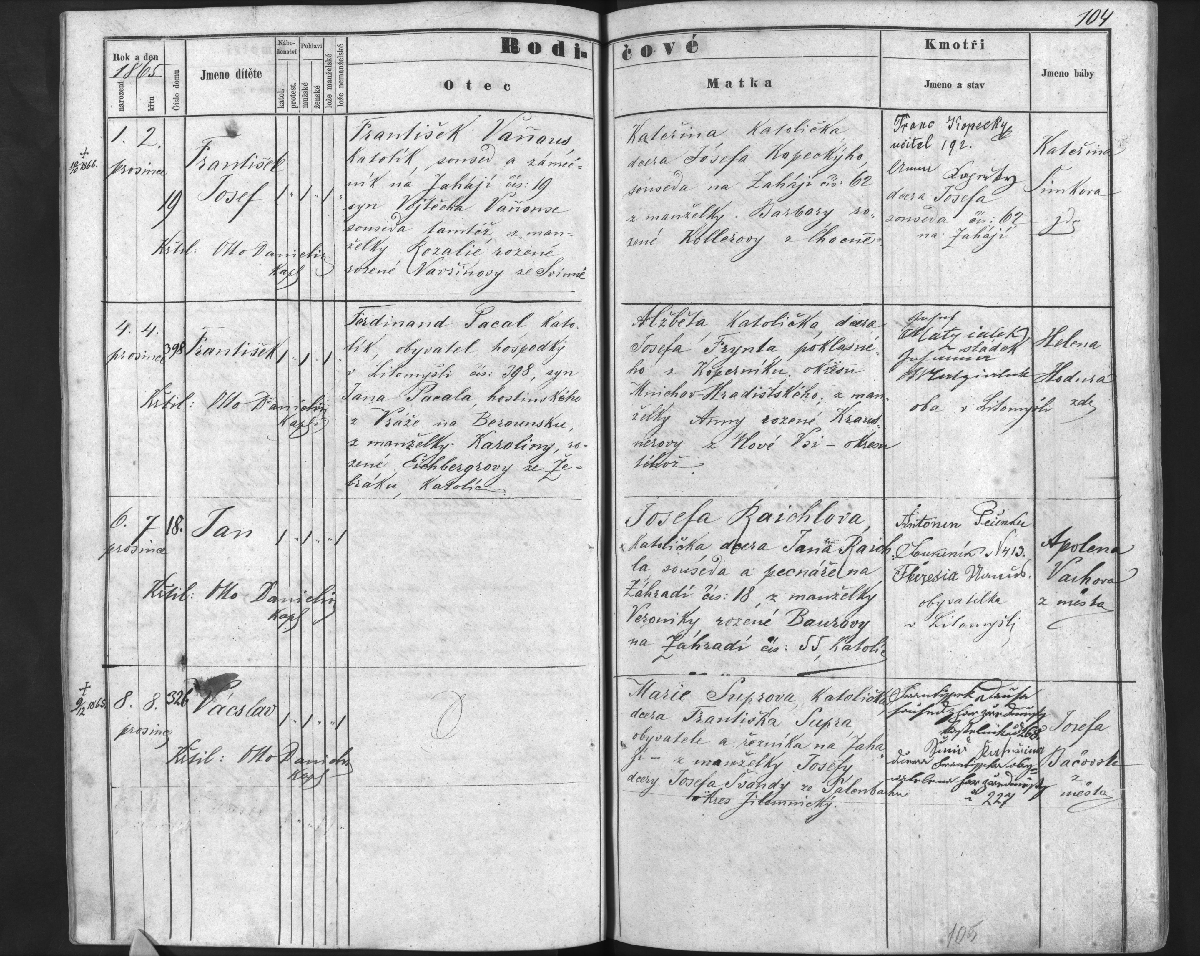 Birth record of František Pácal (1865-1938), Czech opera singer